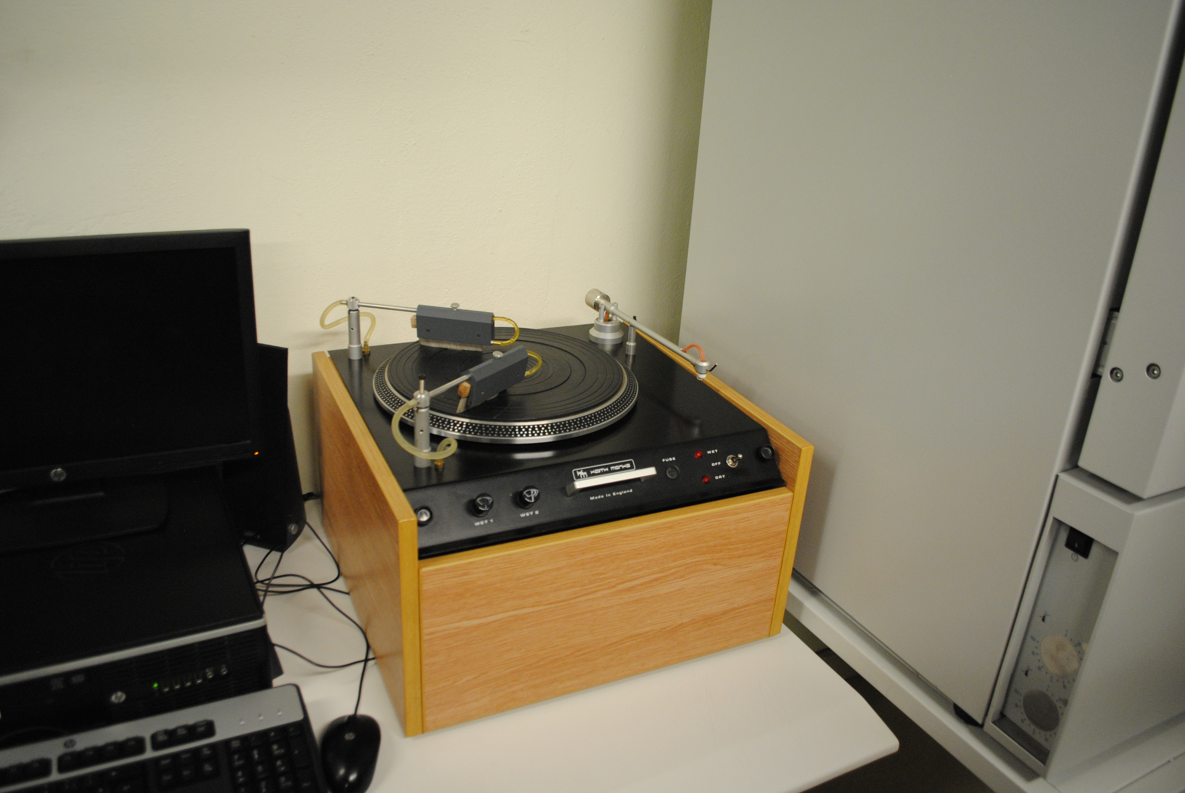 Vinyl disc records preservation machine. Facilities of the Fonoteca Nacional de México (National Sound Archive of Mexico), in a special type backstage tour for Wikimedia México community. Keith Monks machine